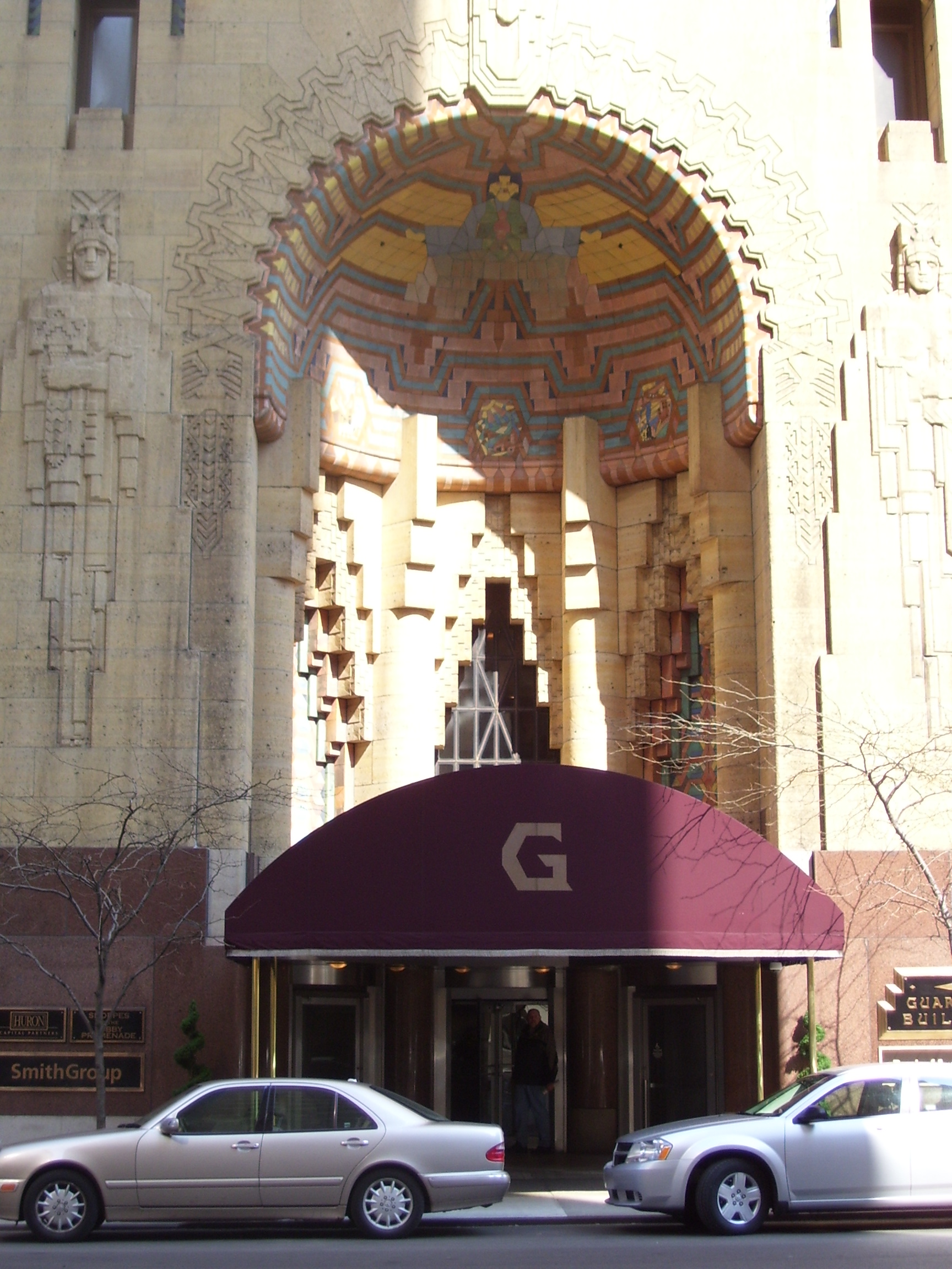 The exterior domes of the Guardian Building in Detroit Michigan. Notice the Pewabic Pottery.